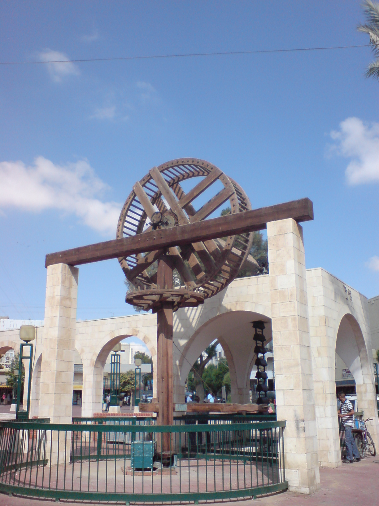 BEER SHEVA, Archeological sites of Israel